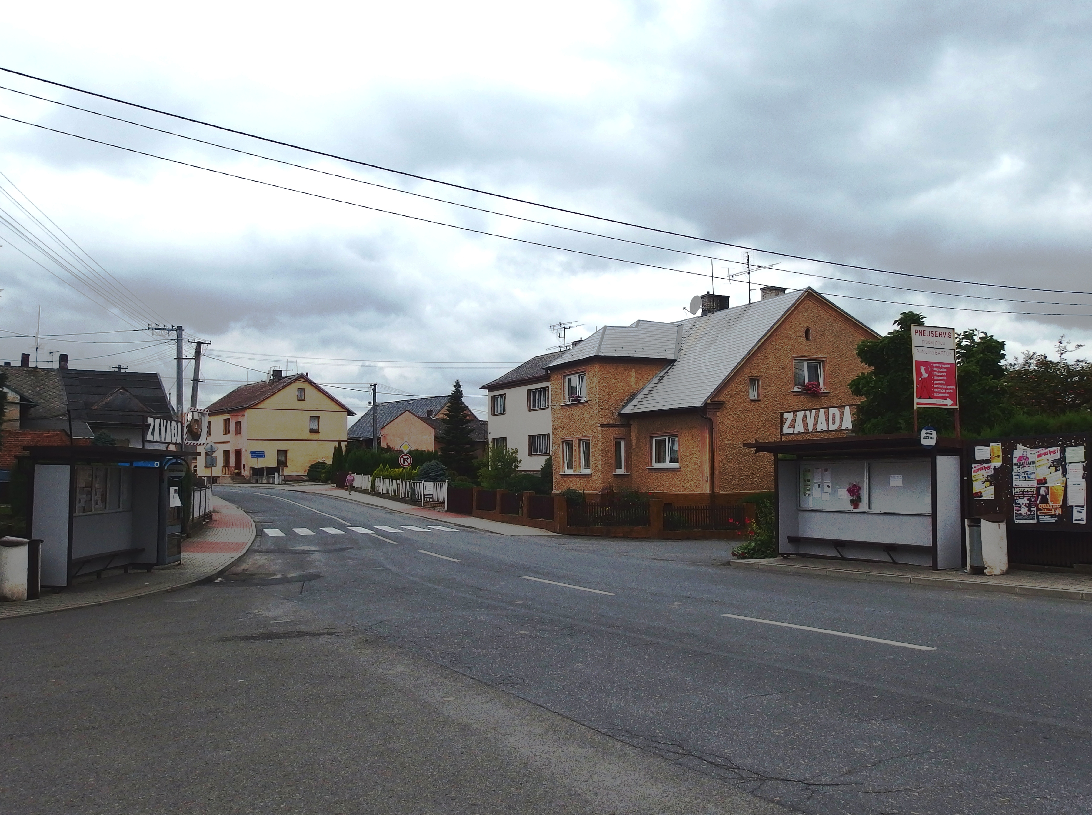 Závada, Opava District, Czech Republic.